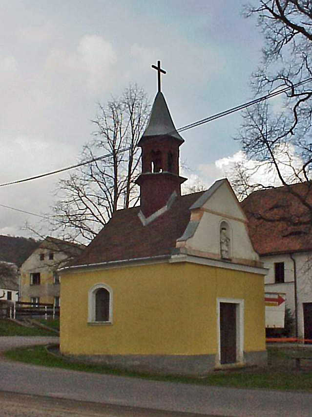 St John Nepomucene chapel in Stradov (part of Chlumec municipality, Ústí nad Labem District, Czech Republic.)